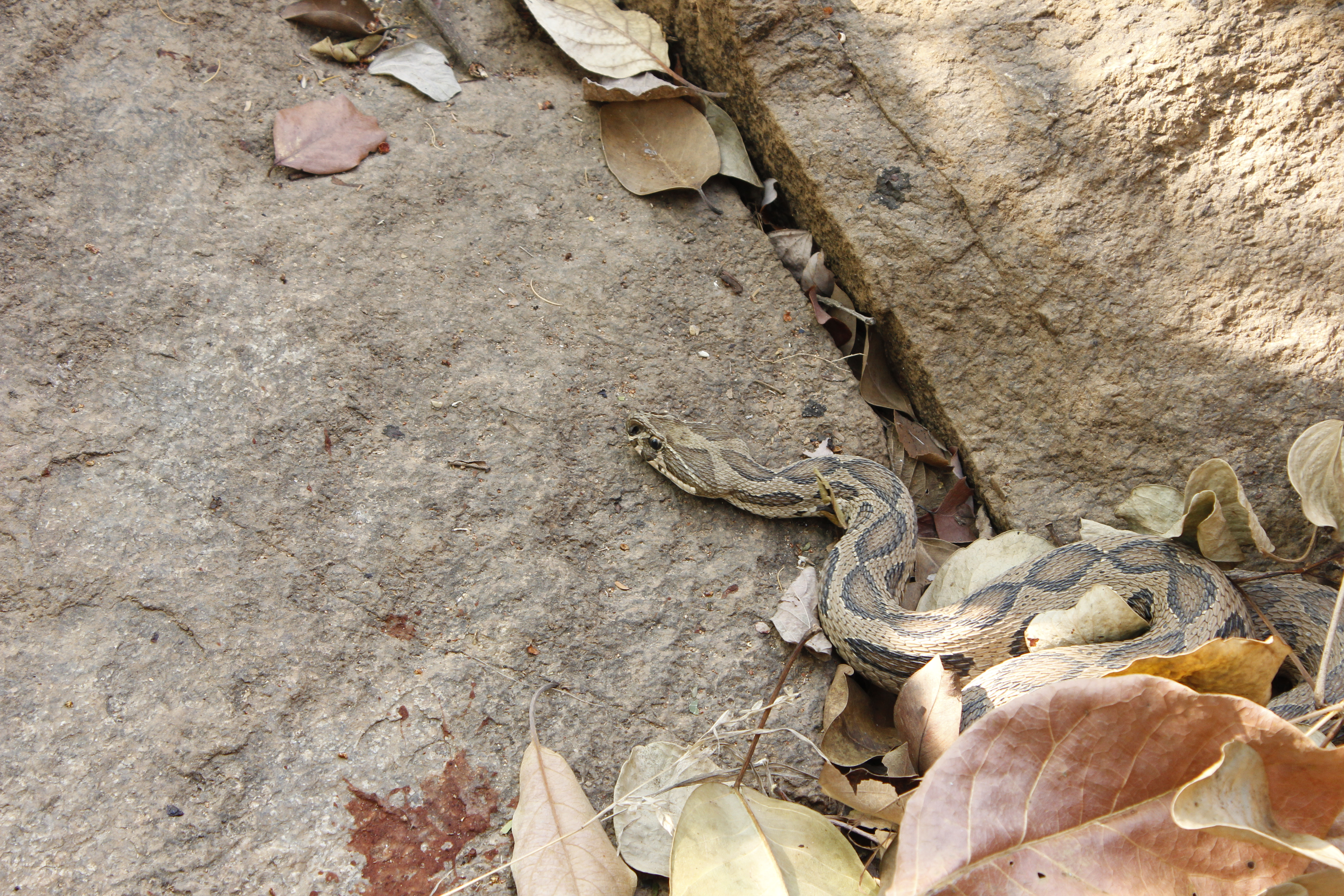 The Russell's viper is one of the most dangerous snakes in all of Asia, accounting for thousands of deaths each year.